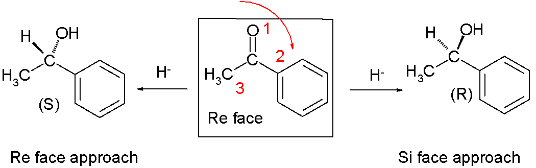 Re face And Si Face